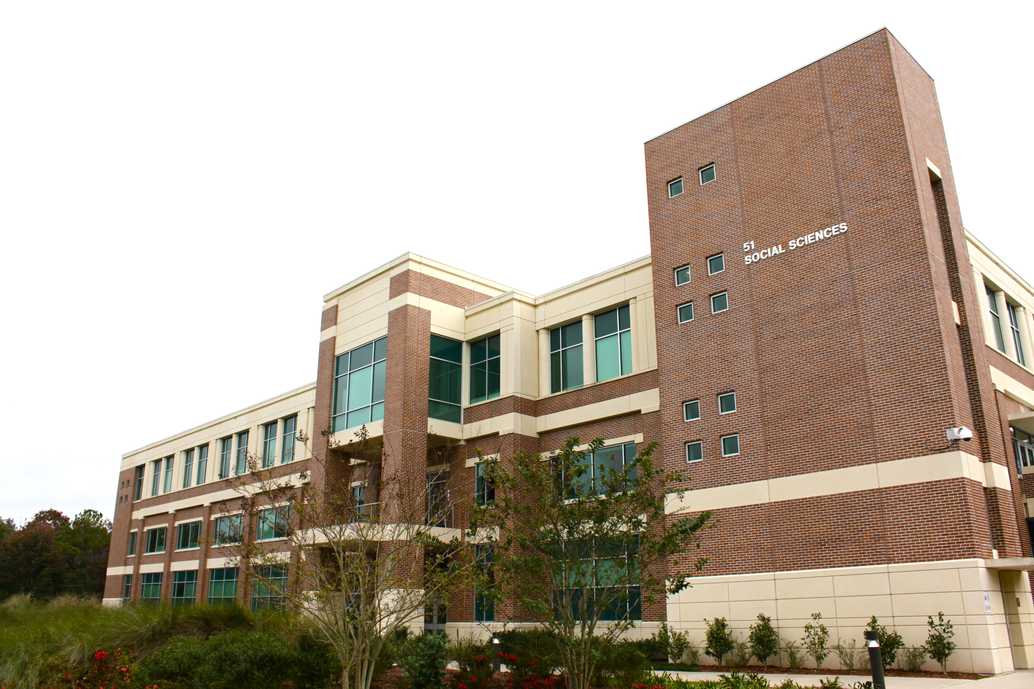 The Social Sciences Building (51) at the University of North Florida.